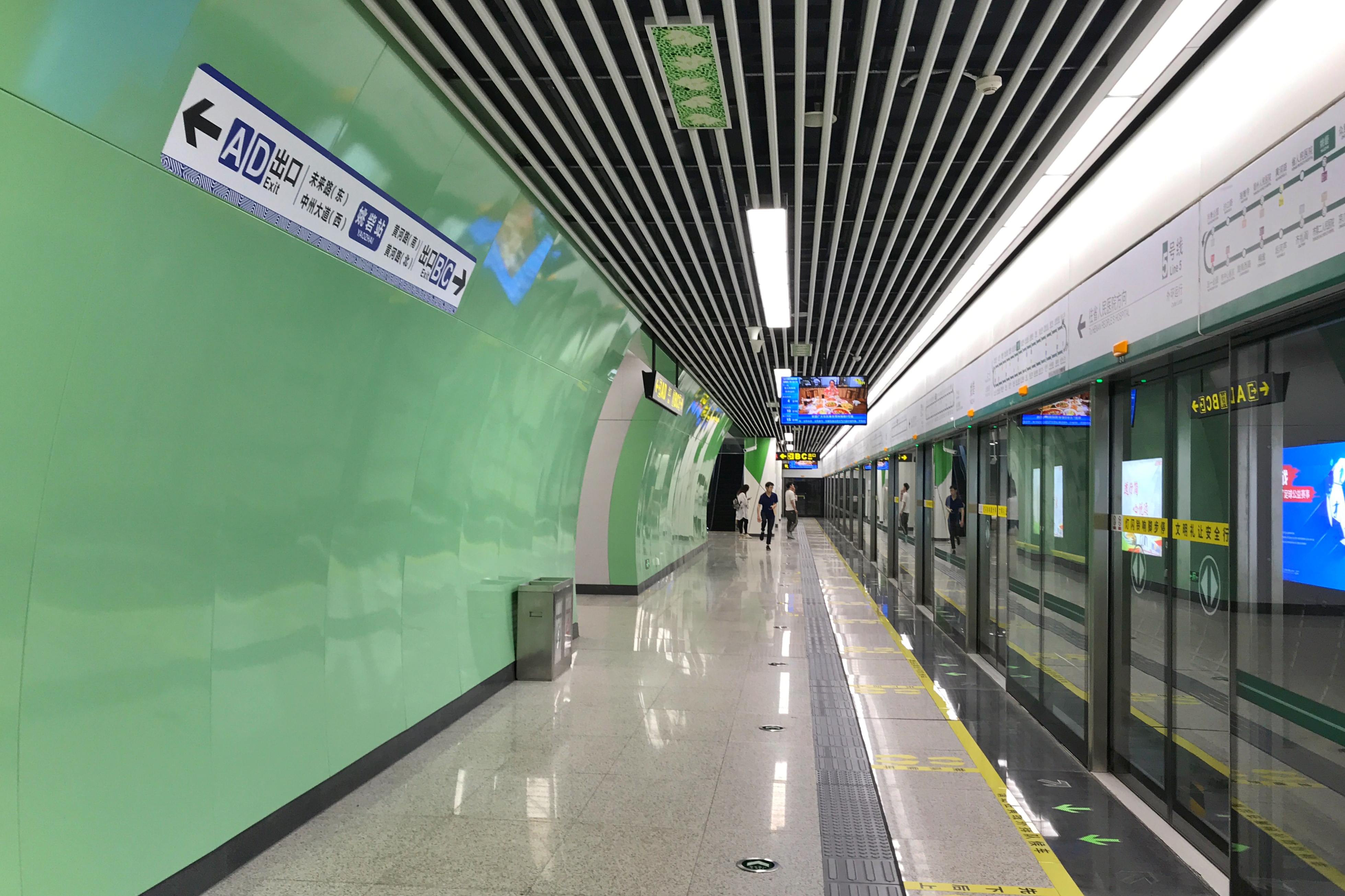 Platform of Yaozhai Station